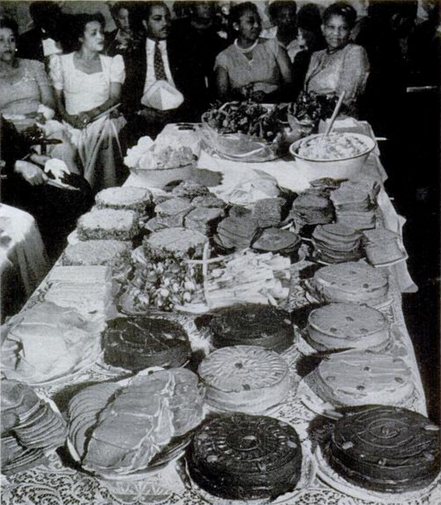 lavish feast table of Prophet Francis Marion Jones' in November 1944